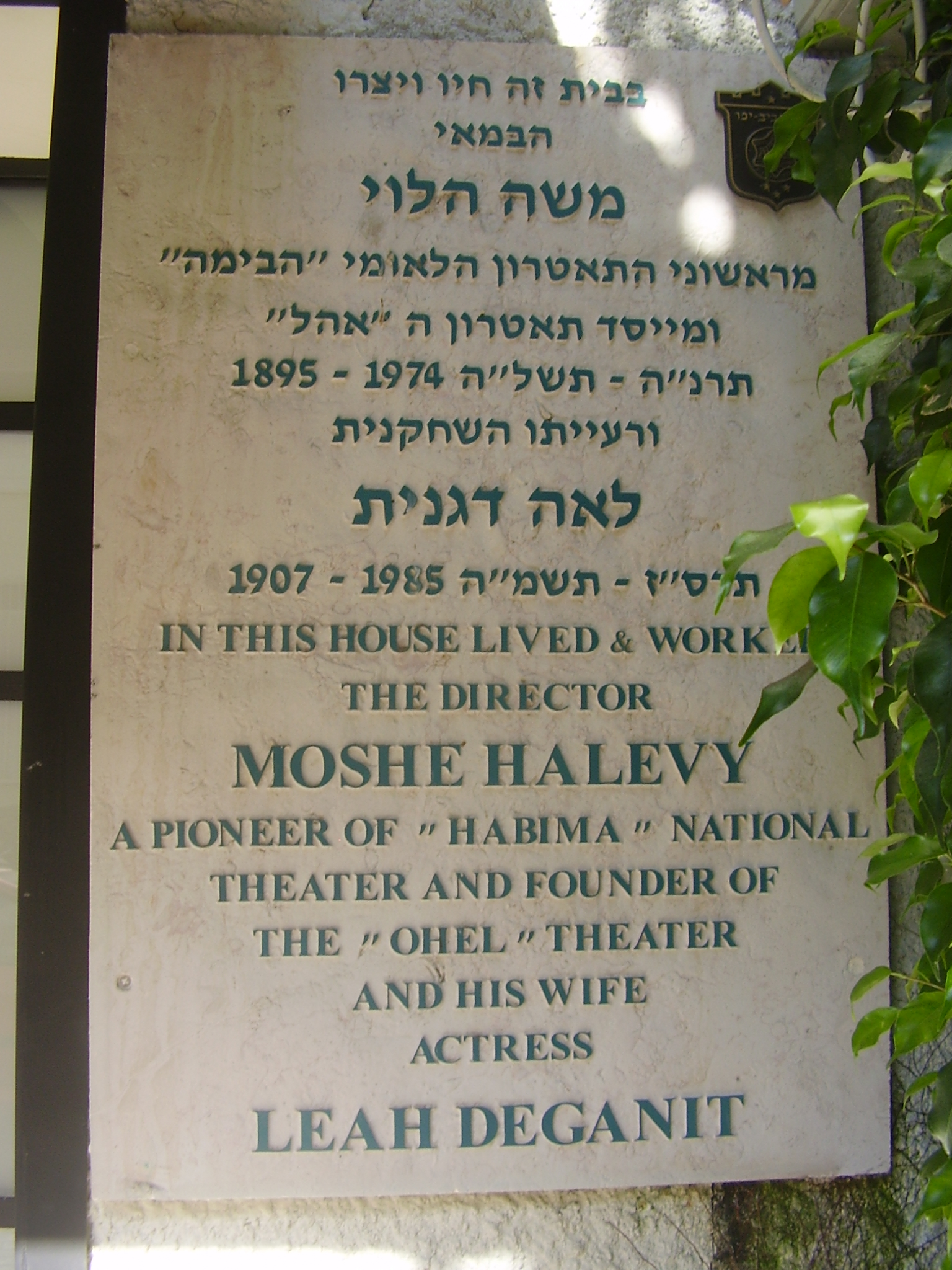 memorial plaque on the house of moshe halevy and leah deganit in tel aviv לוחית זיכרון על ביתם של משה הלוי ולאה דגנית ברח' דב הוז 9 בתל אביב